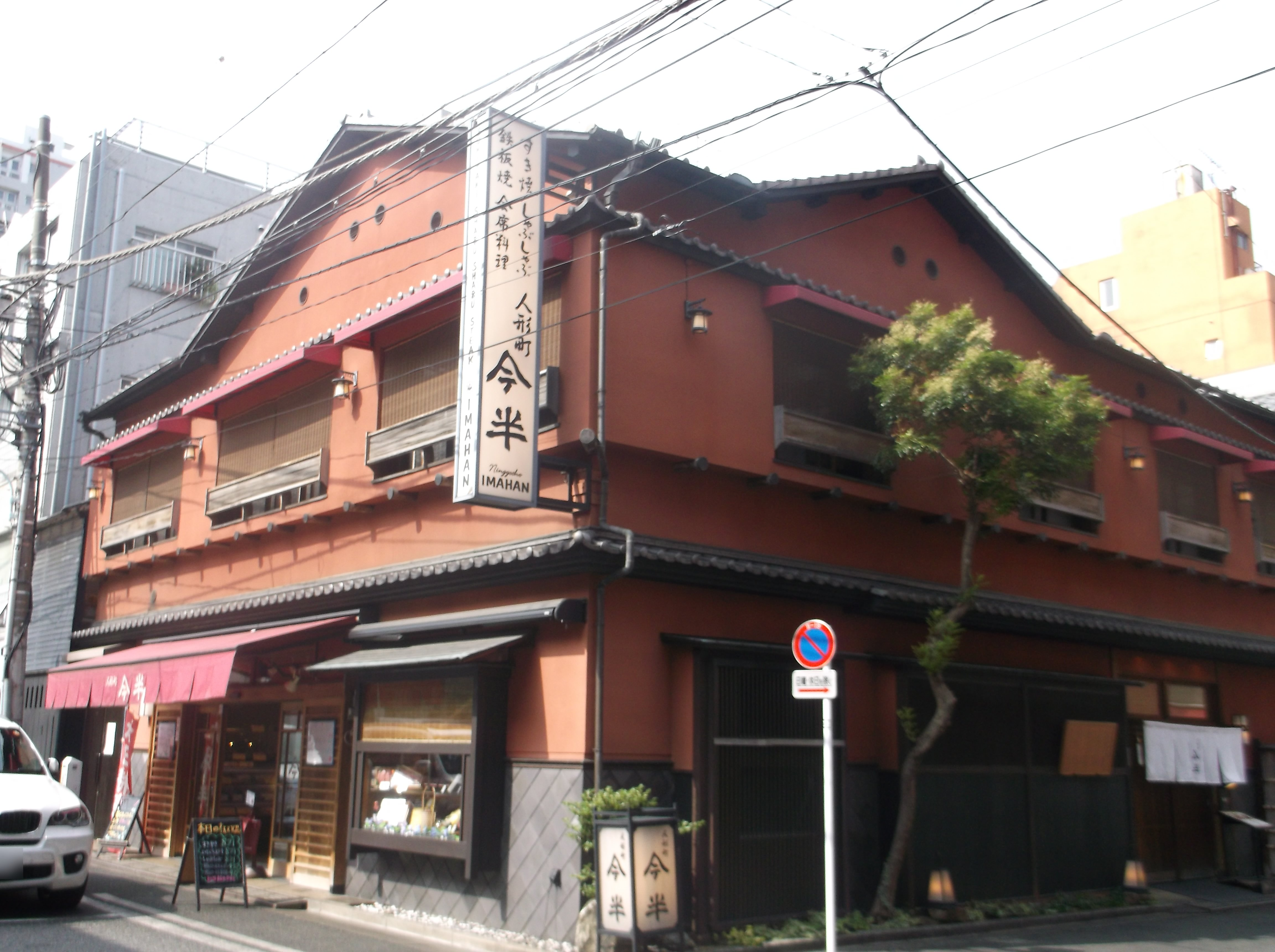 A photo of "Ningyocho Imahan"(a sukiyaki restaurant in Tokyo.)Nihonbashiningyocho,Chuo-ku,Tokyo,Japan.